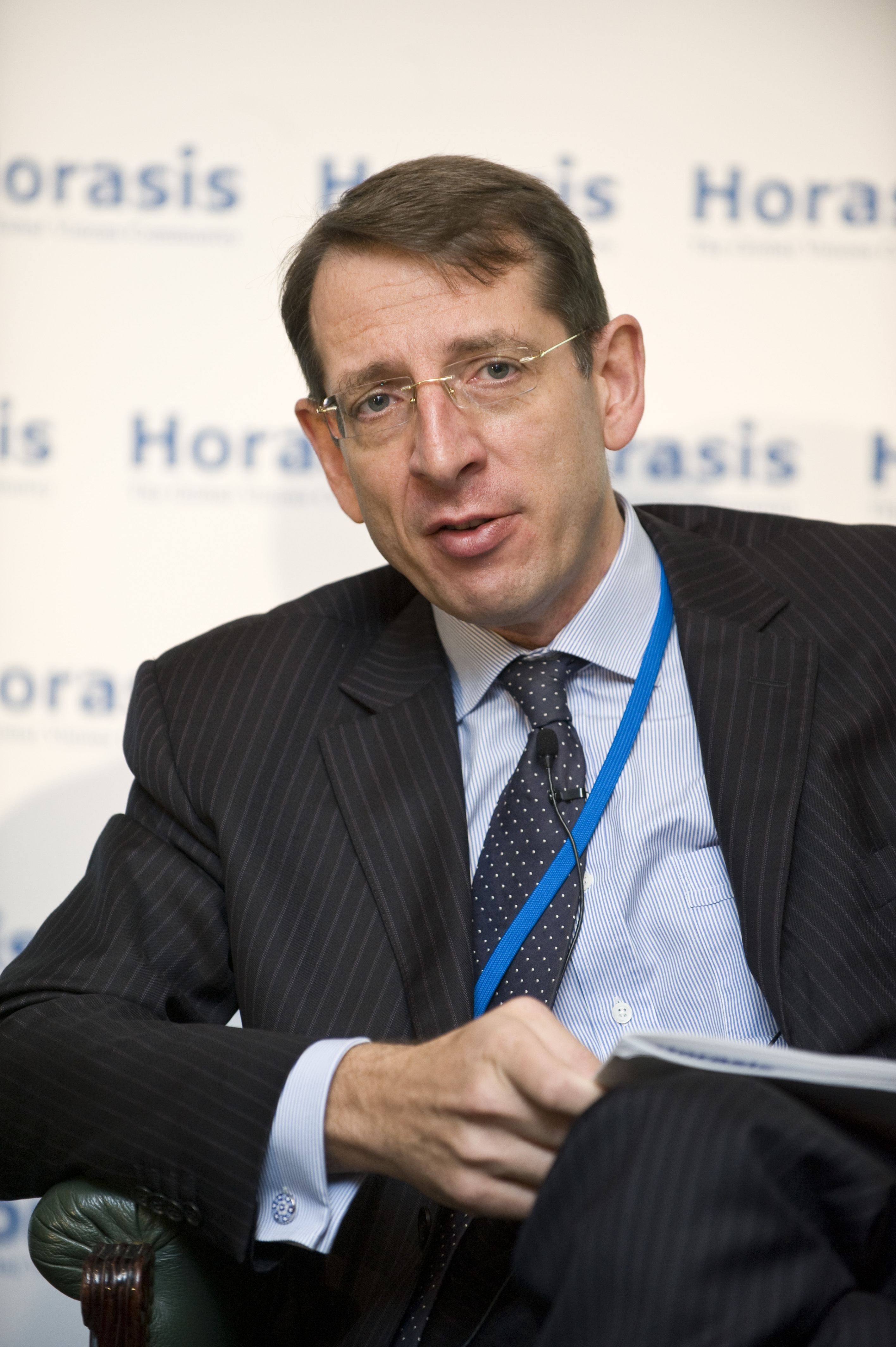 Frank-Jurgen Richter, President, Horasis, during the opening plenary of the 2010 Horasis Global India Business Meeting